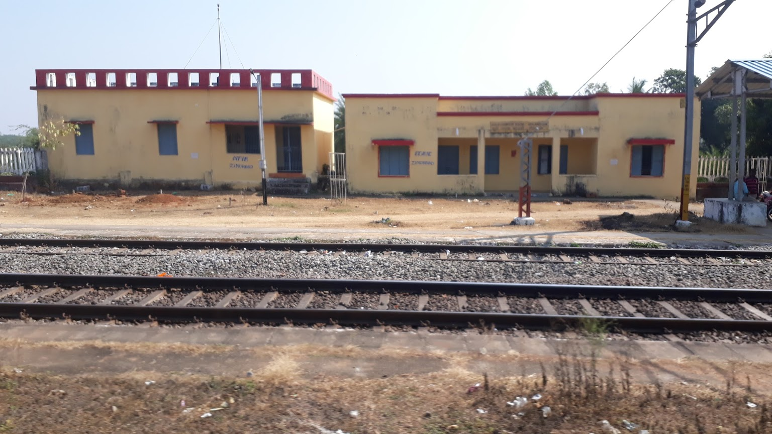 This is the Picture of Golanthra railway station